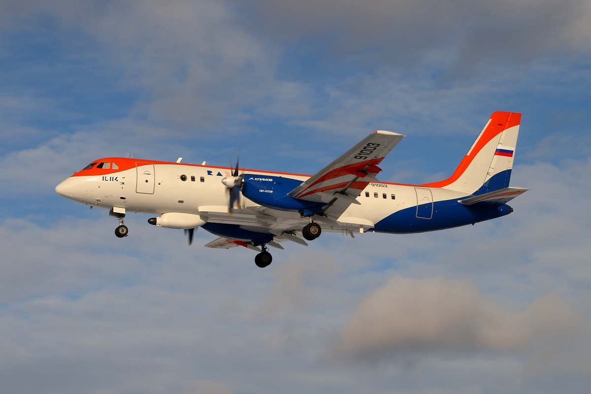 RADAR Ilyushin Il-114